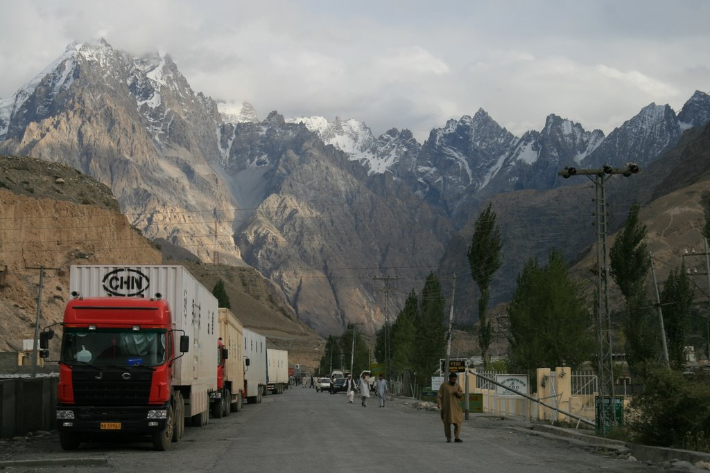 Chinese cargo trucks awaiting Pakistan Customs clearance at Sost